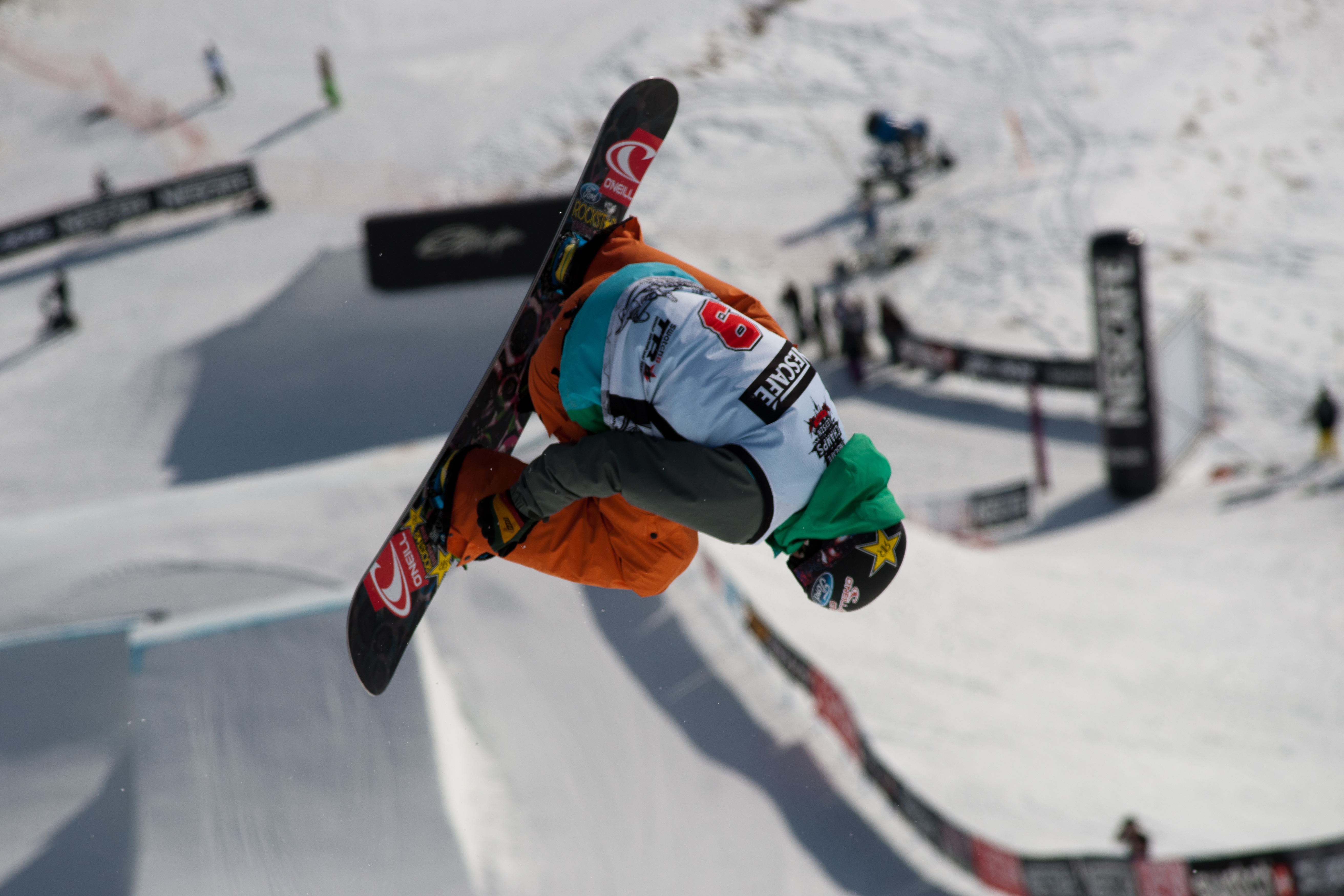 The making of this document was supported by Wikimedia CH. (Submit your project!) For all the files concerned, please see the category Supported by Wikimedia CH. 20th Leysin Nescafe Champs, 8th - 13th February 2011